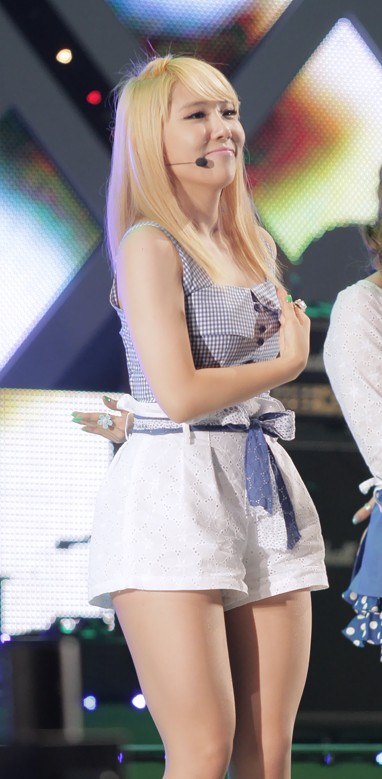 Jung Hana in 2011